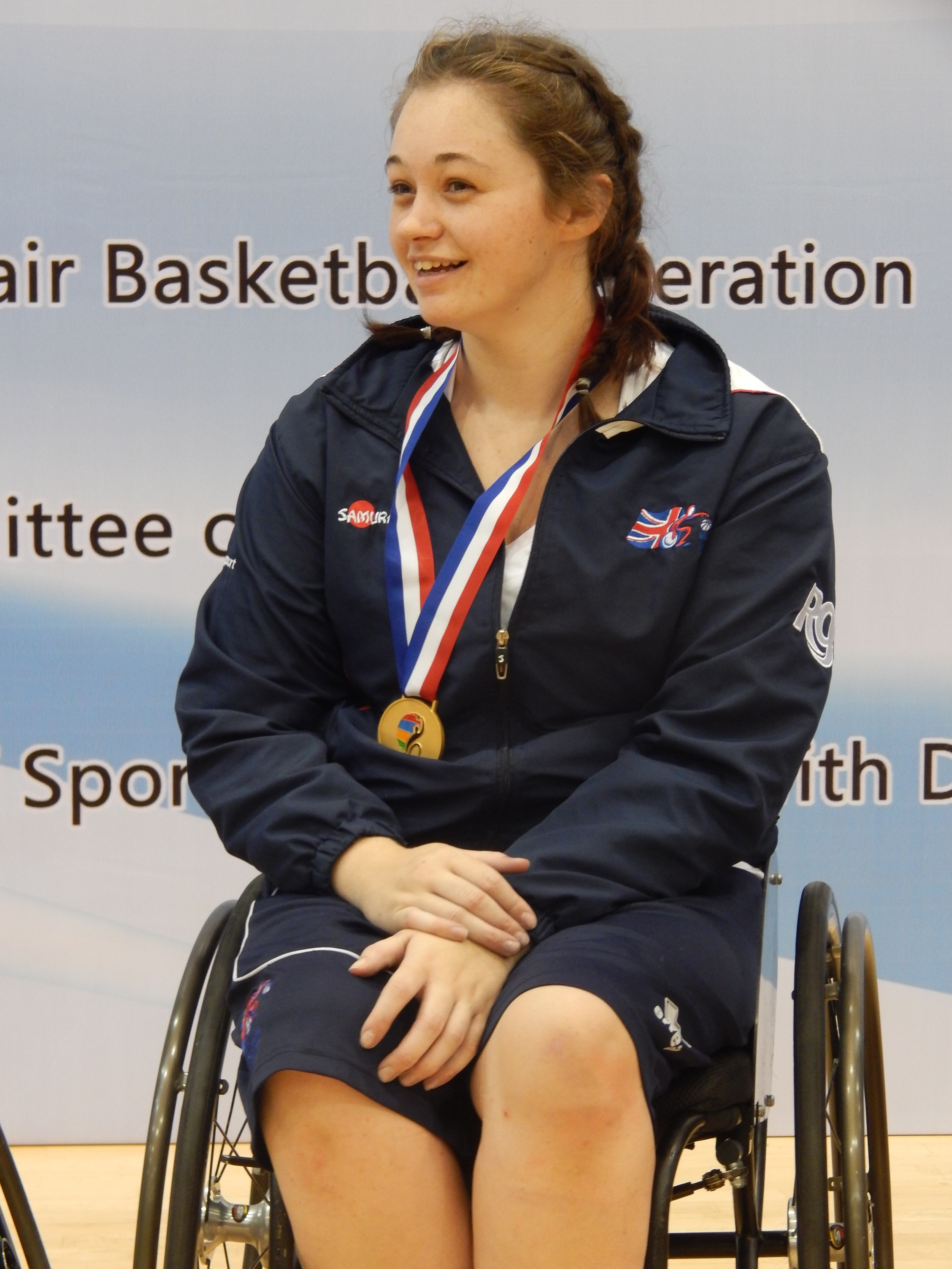 U15 Women's U25 Wheelchair Basketball World Championship - Team Great Britain - Jordanna Bartlett